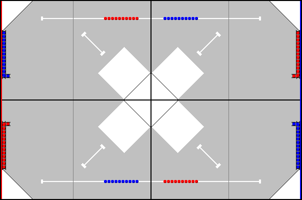 The Half-Pipe Hustle field during the autonomous period.